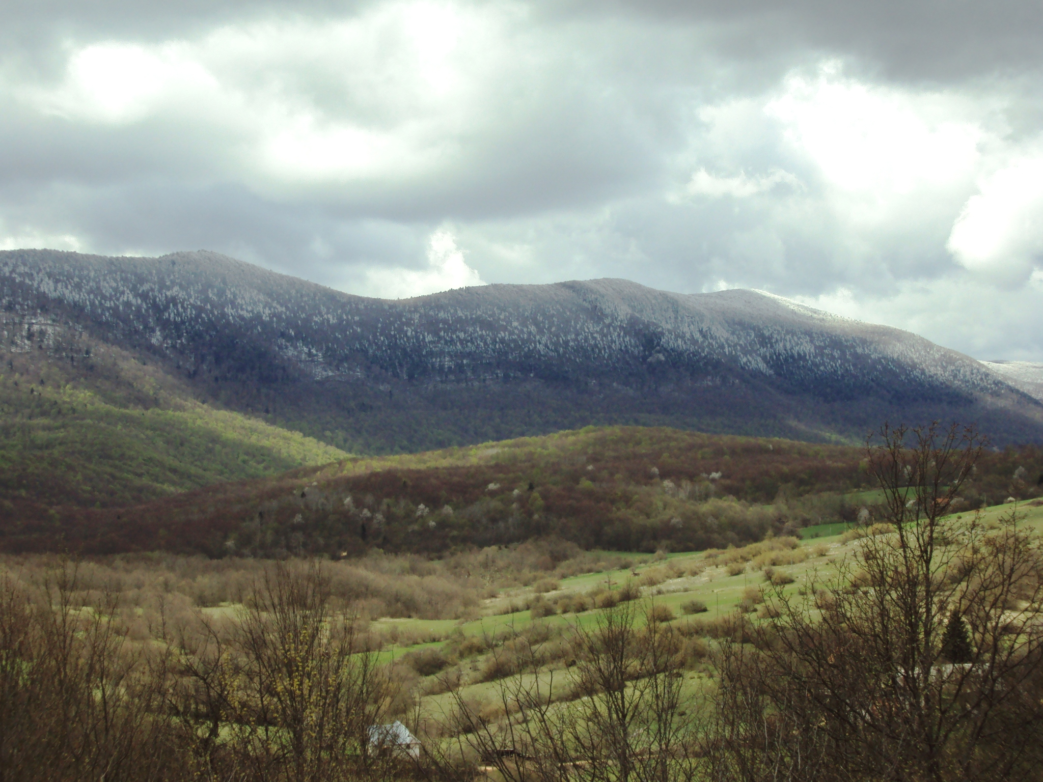 The village of Gorići near Otočac, Region of Lika, Croatia